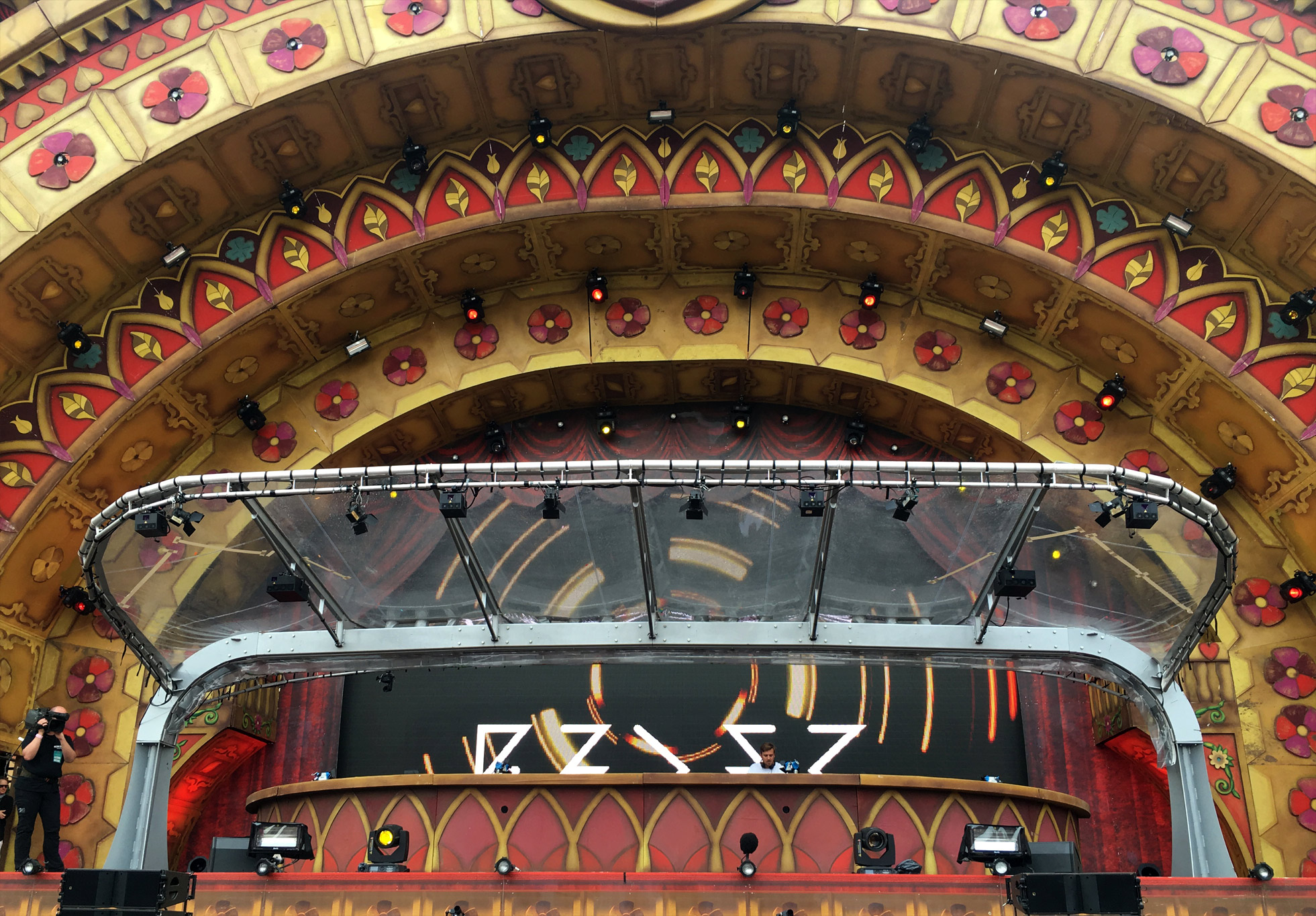 Feder at Tomorrowland, 2016, july, on the Opera stage.